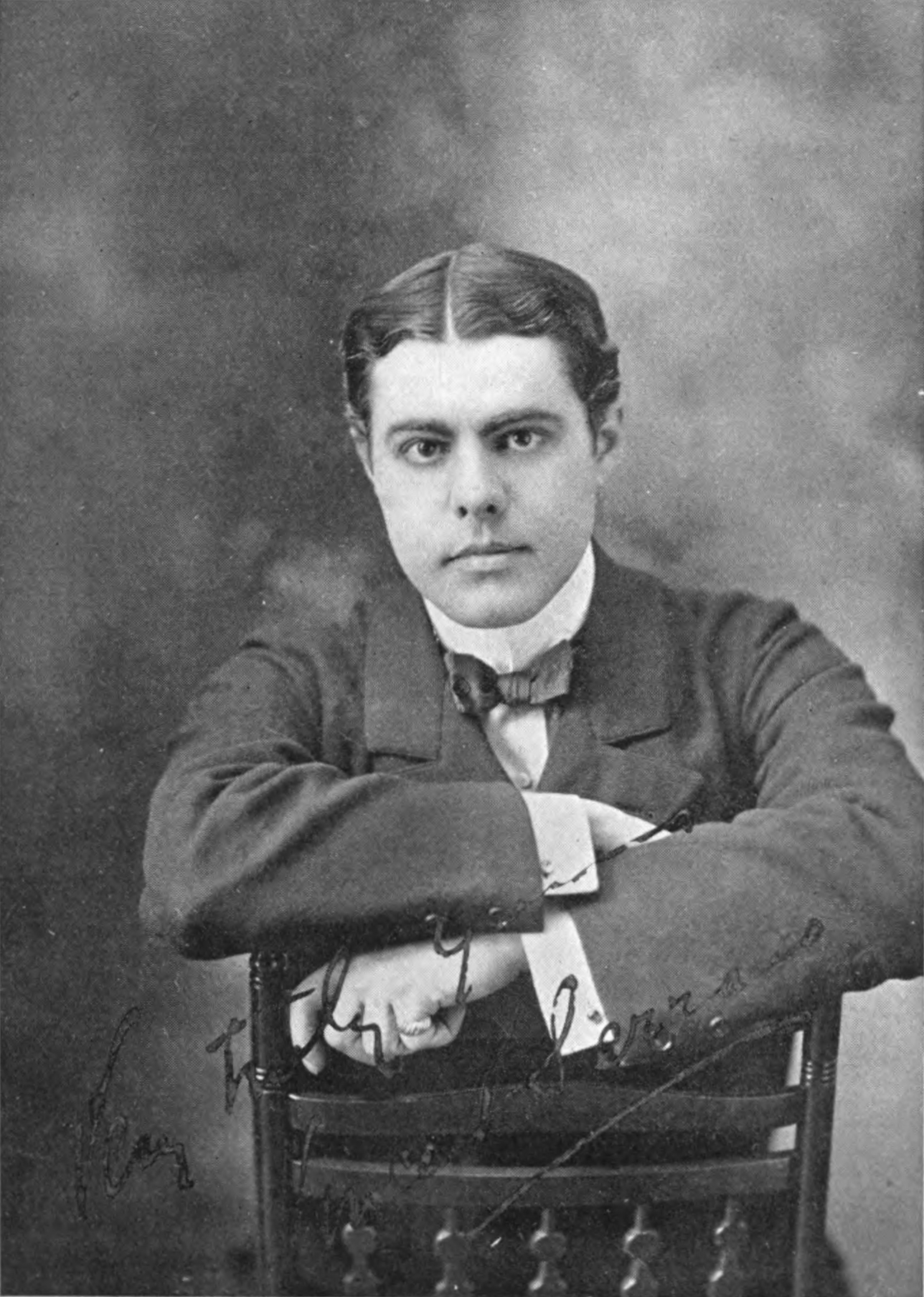 Photo of actor Vincent Serrano, appearing in "The Players Blue Book" (1901).